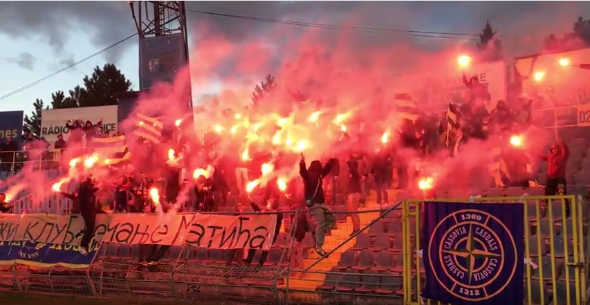 VSS agains Lokomotiva